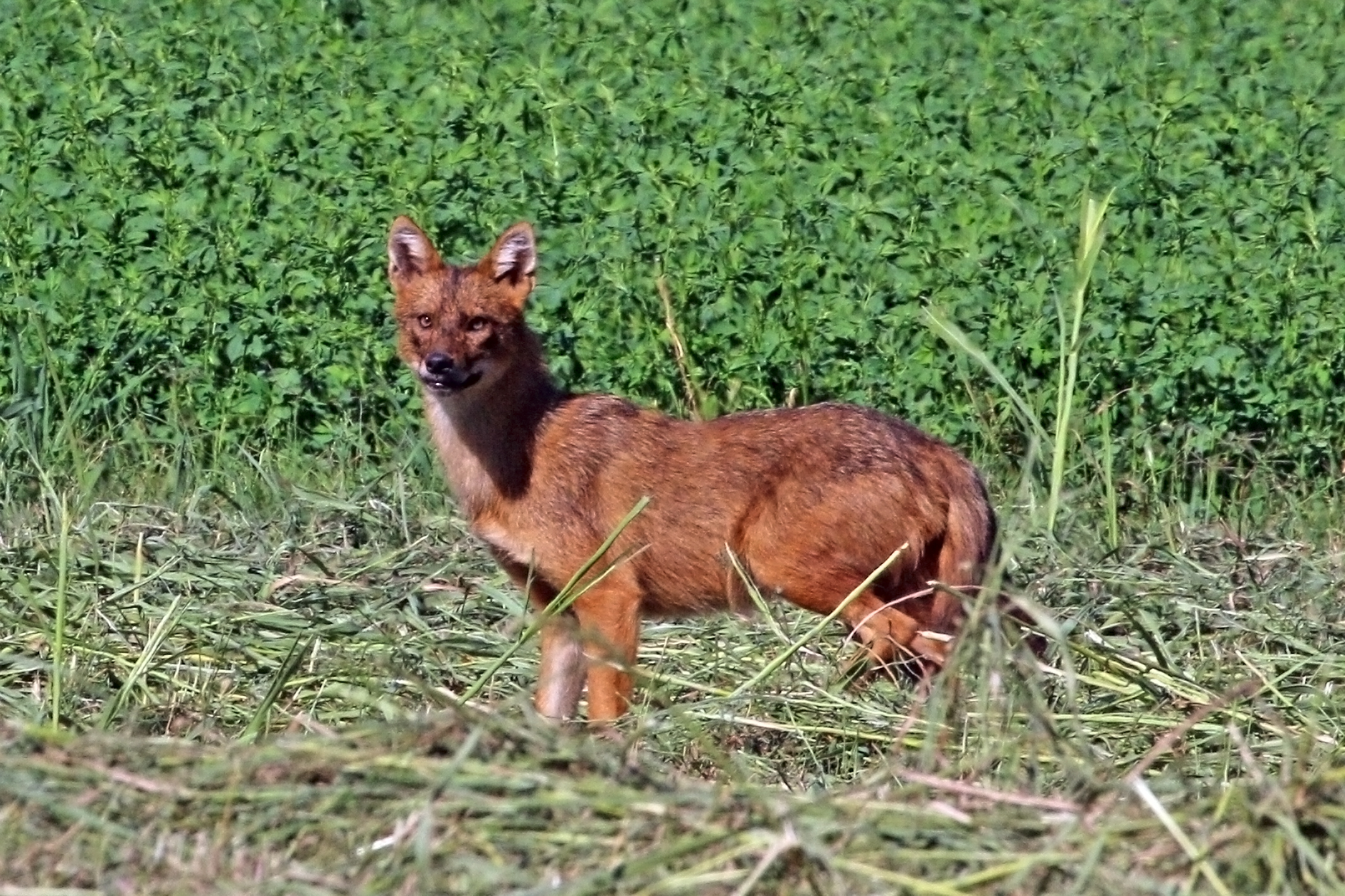 Golden jackal (Canis aureus moreotica), Lake Kirkini, Greece